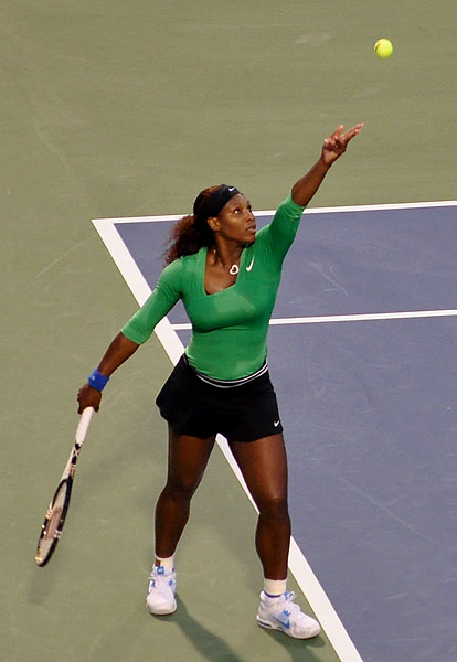 SerenaWilliams_0035